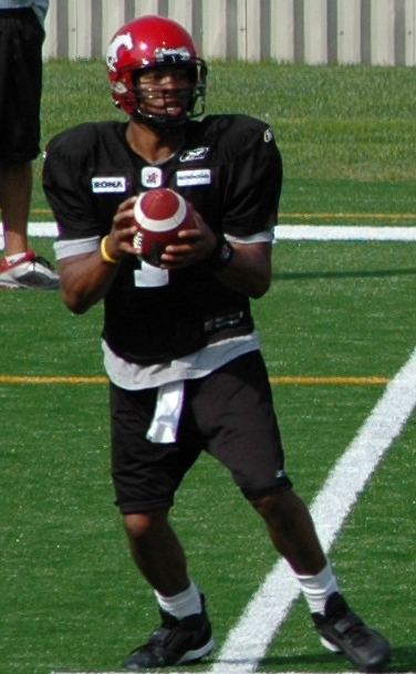 Quarterback Henry Burris at Calgary Stampeders training camp in 2006.